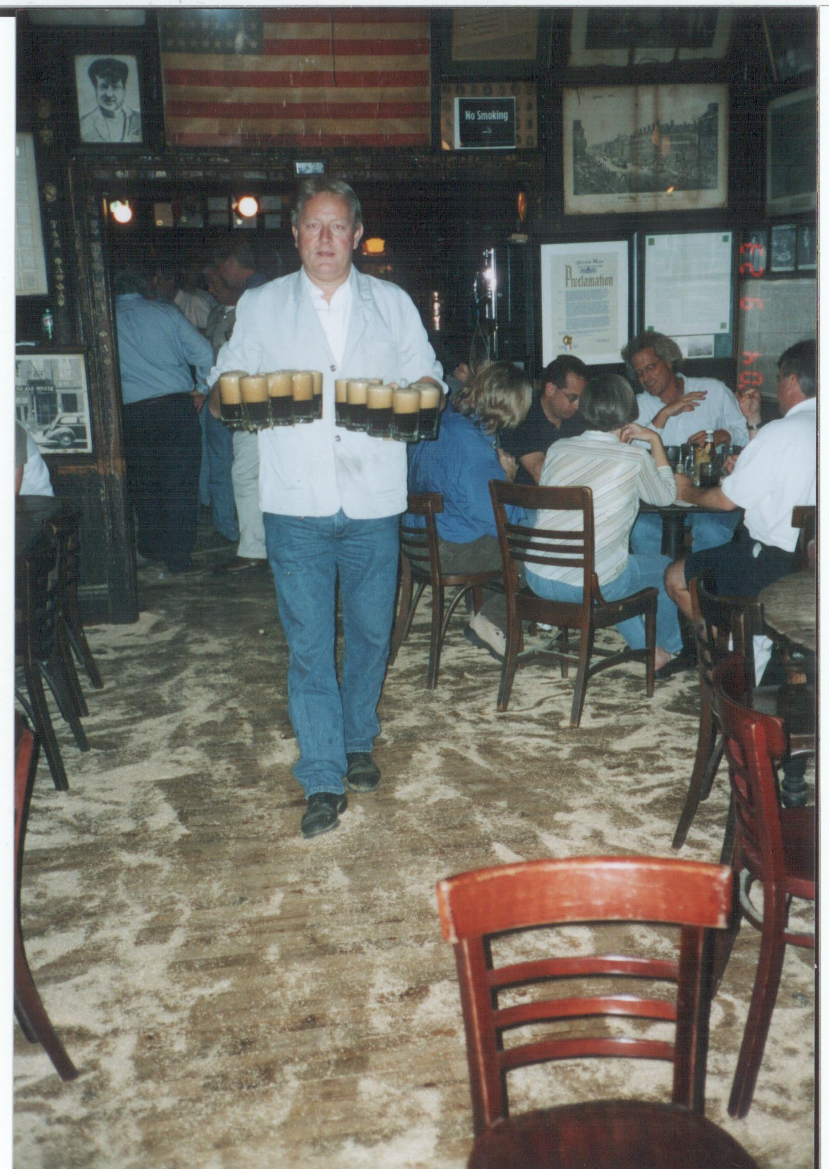 A waiter at McSorley's Old Ale House in New York City.